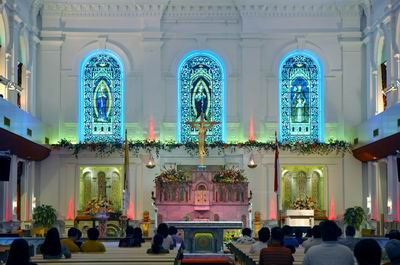 The interior of the Church of the Sacred Heart on Tank Road, Singapore.